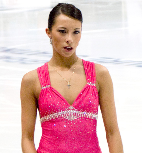 2010 Cup of Russia, short program.